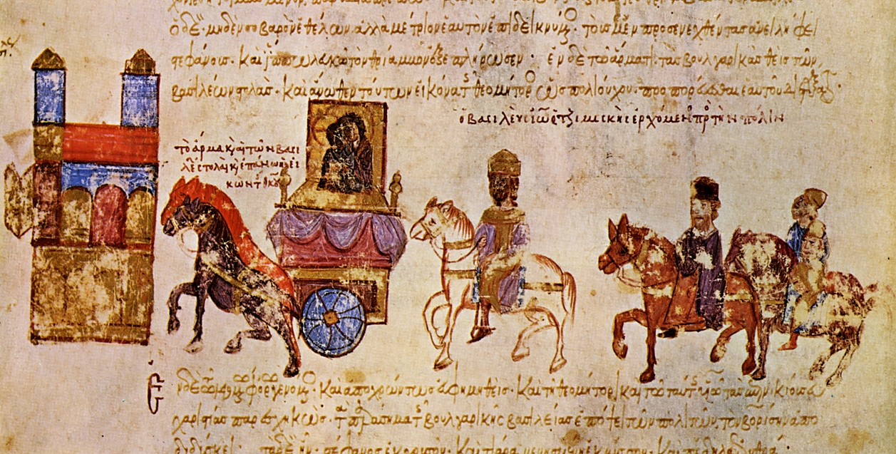 Tzimiskes returns in Constantinople after the capture of Preslav